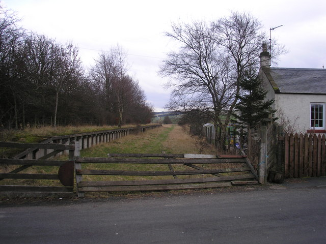 The Disused Heriot Railway Station The view of the disused railway line (the Waverley Line) at the now disused station for the village of Heriot (some 2 kilometres away). The gates appear to be those which were originally used as a level crossing.